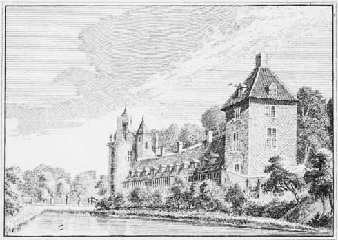 Castle Wisch, frontside